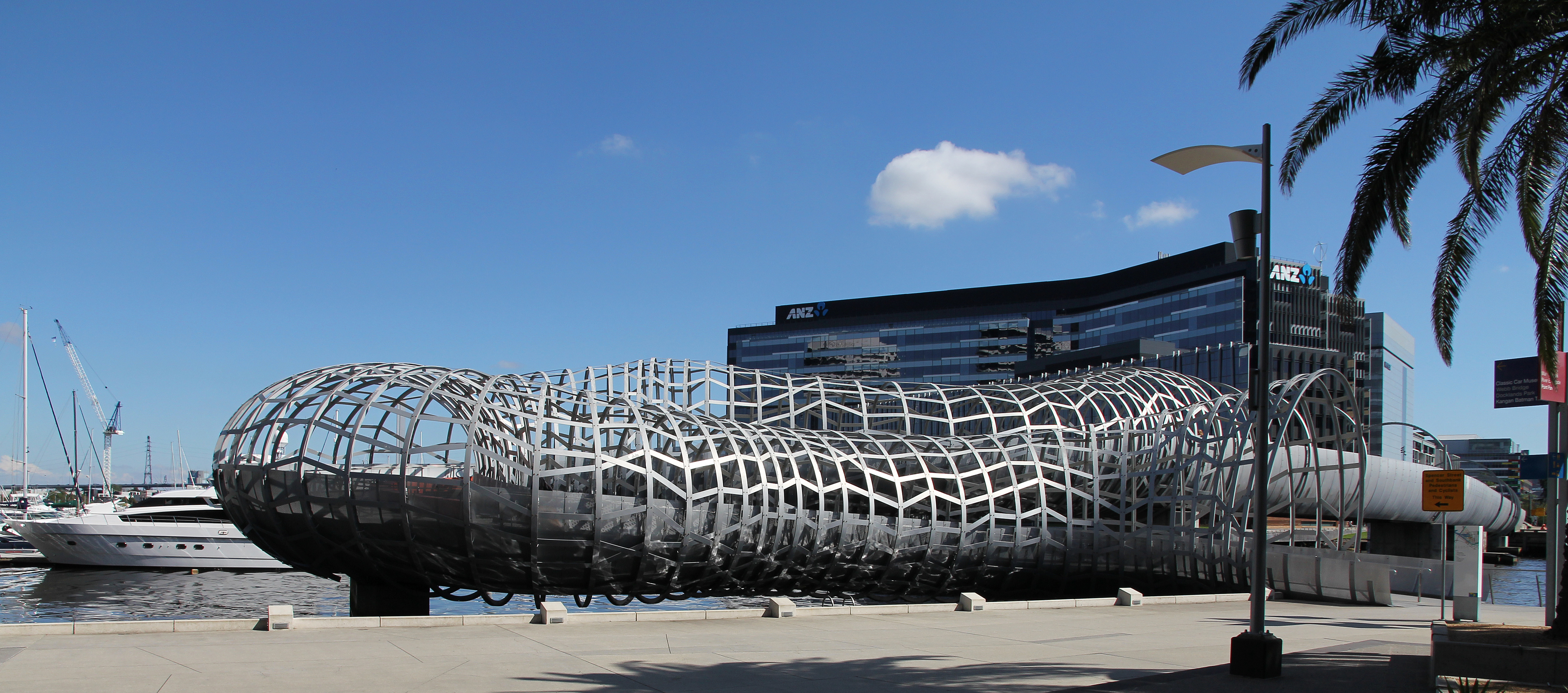 Webb Bridge designed by architects Denton Corker Marshall in collaboration with artist Robert Owen in Docklands, Melbourne